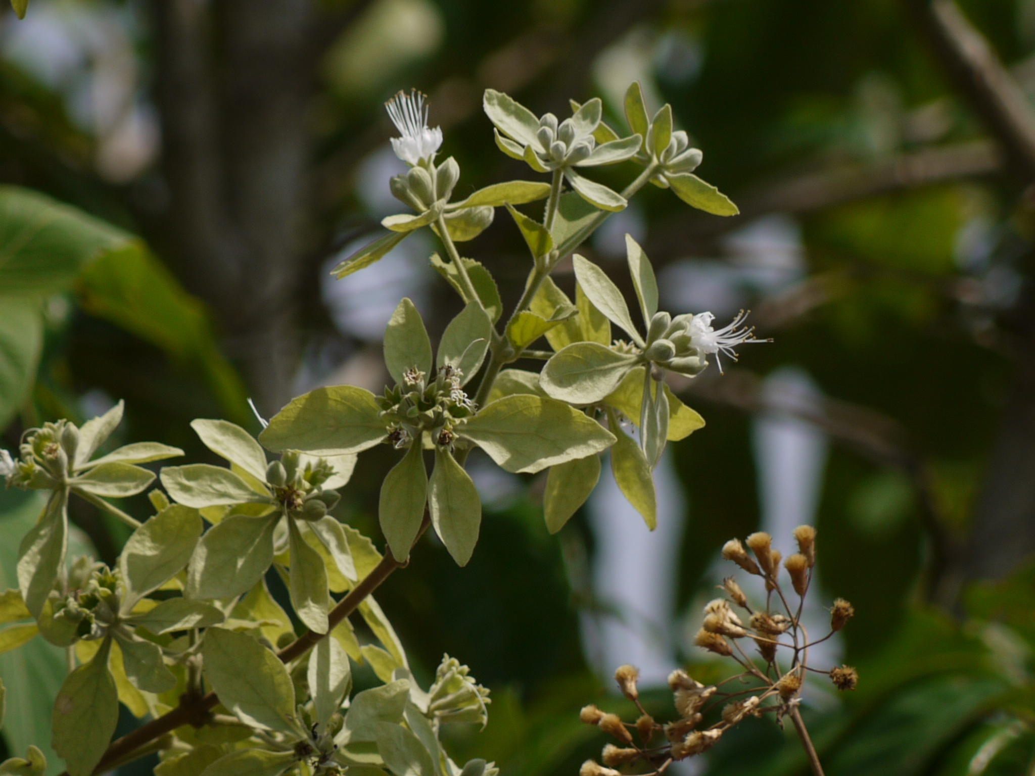 Verbenaceae (verbena, or vervain family) » Symphorema polyandrum ¿ sim-foh-REE-muh ? -- from the Greek symphoreo (accumulate, unite) pol-ee-AN-drum -- from the Greek poly (many) and andros (male, or stamens) commonly known as: south Indian symphorema • Oriya: mahasindu Endemic to: south India References: Further Flowers of Sahyadri by Shrikant Ingalhalikar • The Plants List